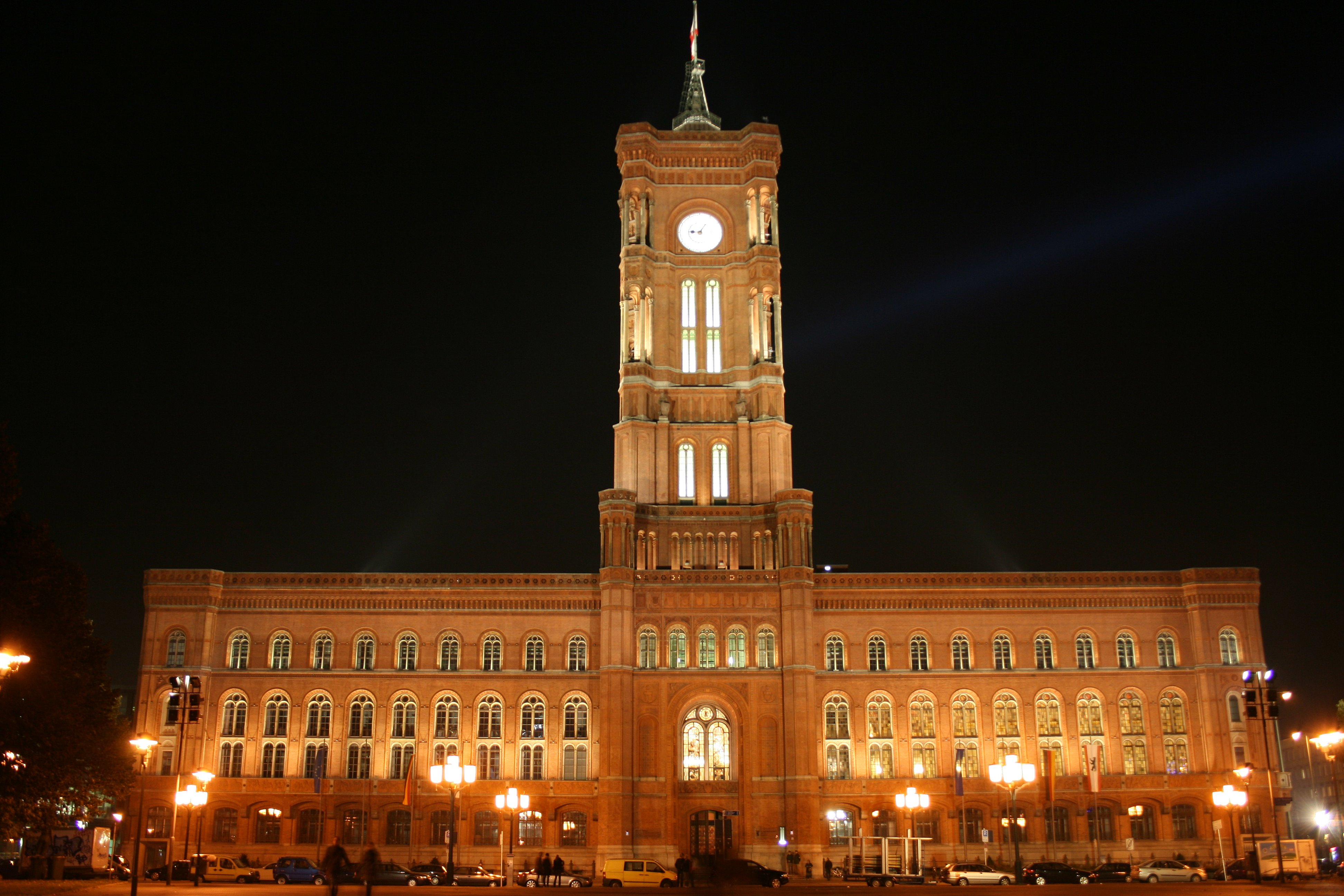 Berlin Red City Hall during 2007 Festival of Lights